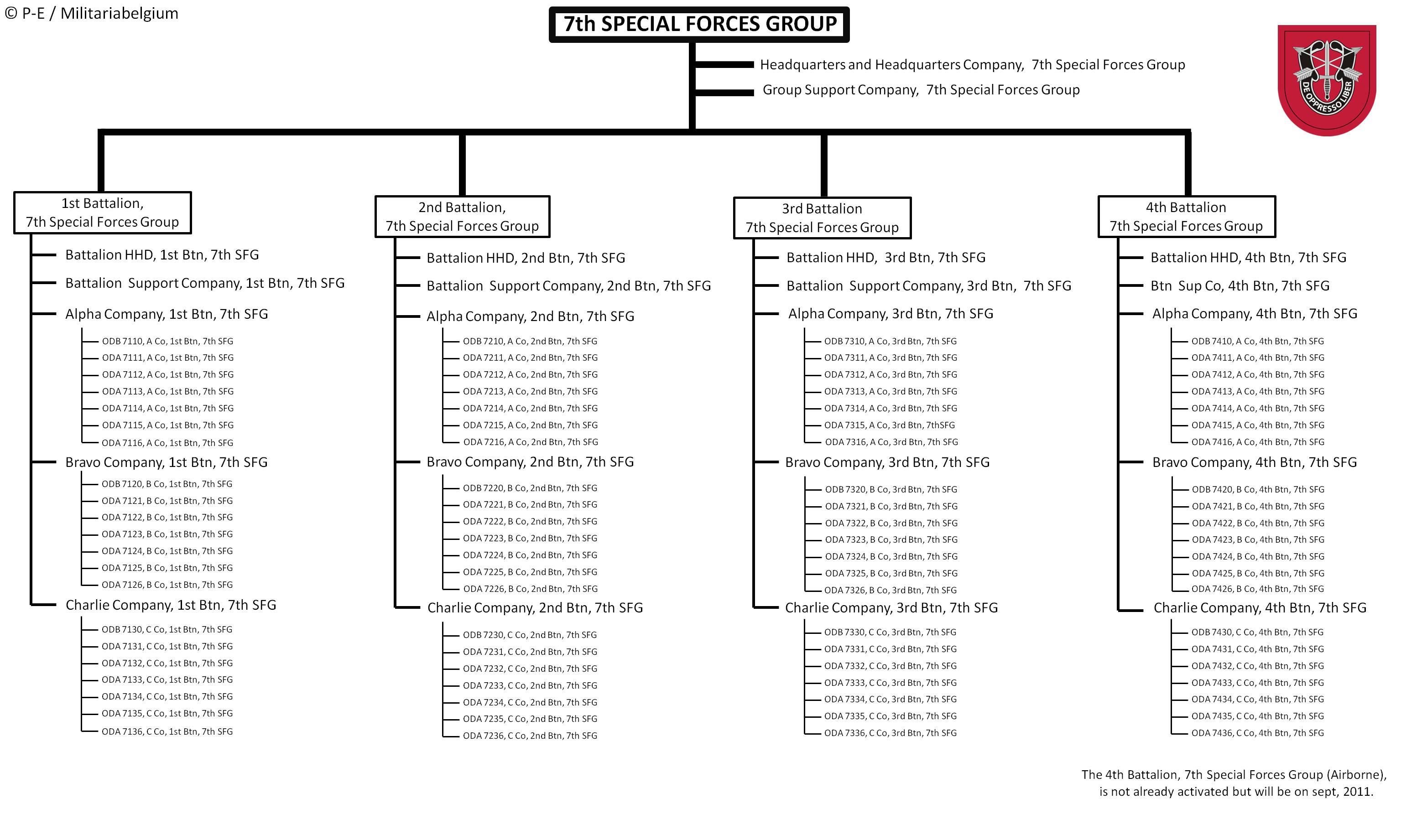 7th Special Forces Group - New 4-digit numbers ODA